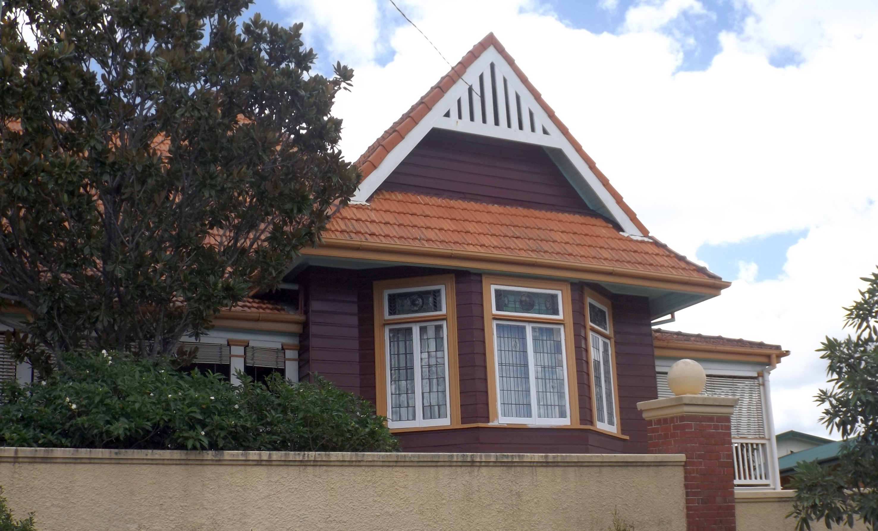 Photo of Wairuna residence at West End, Brisbane, Queensland, Australia.